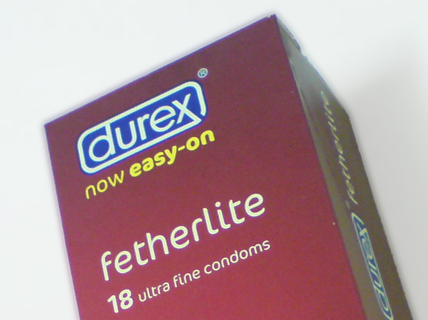 Photograph showing box of condoms from UK